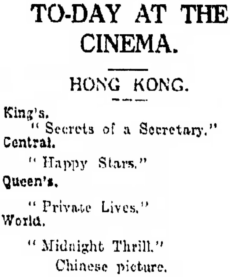 Hong Kong cinemas on 2nd June, 1932, Thursday. (i) King's Theatre (娛樂戲院): 1931 drama film "Secrets of a Secretary (女秘書之秘密)"; (ii) Central Theatre (中央戲院): 1931 Shanghai Mandarin comedy film "Happy Stars (銀星幸運)", starred by Ms. Butterfly Wu (胡蝶); (iii) Queen's Theatre (皇后戲院): 1931 comedy film "Private Lives (私人秘史)"; (iv) New World Theatre (新世界戲院): 1932 detective silent film "Midnight Thrill (夜半鎗聲)", Chinese picture which was the third production from the open field studio inside the "Ming Yuen Amusement Resort (名園遊樂場)".